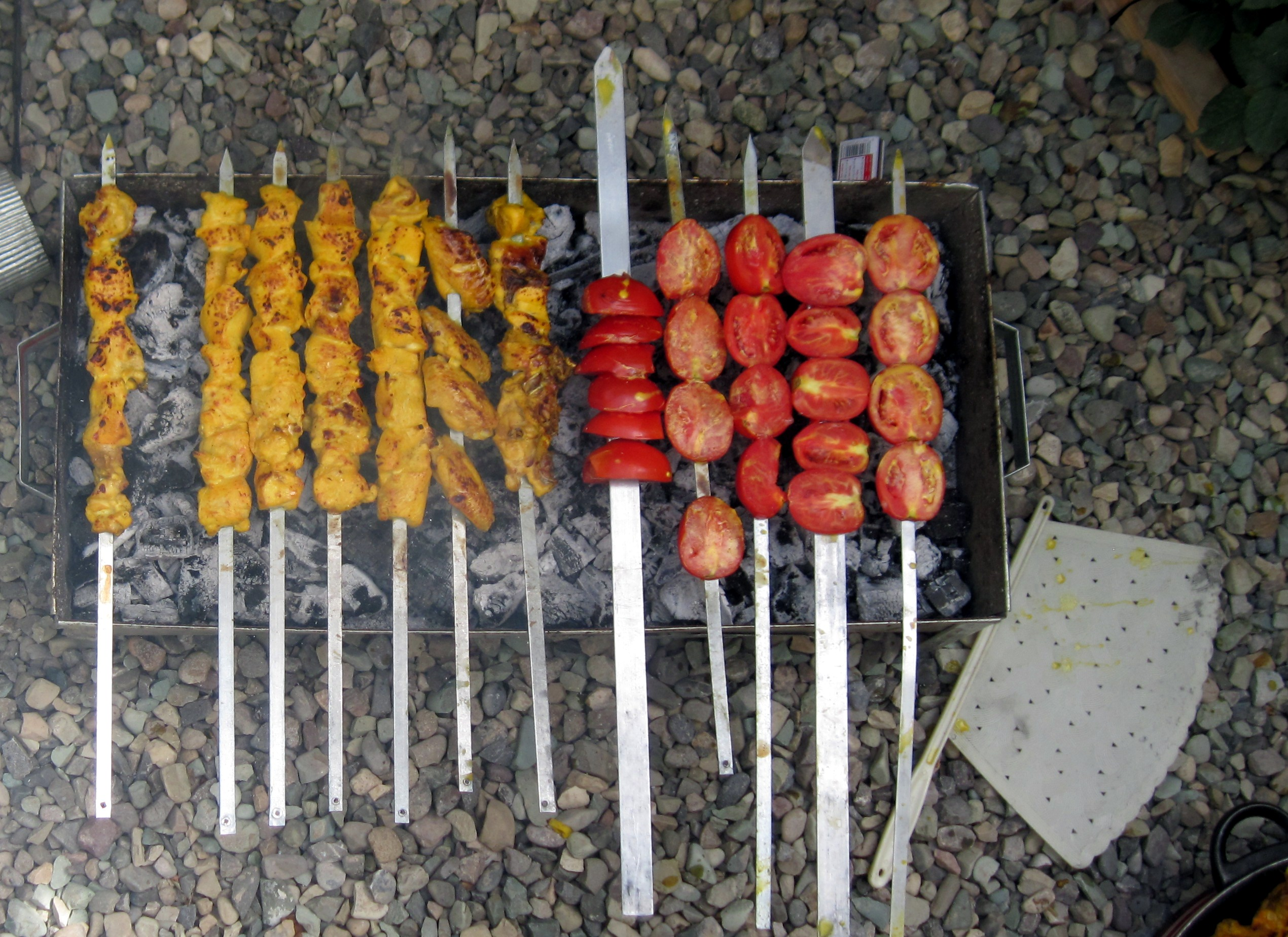 Kebab